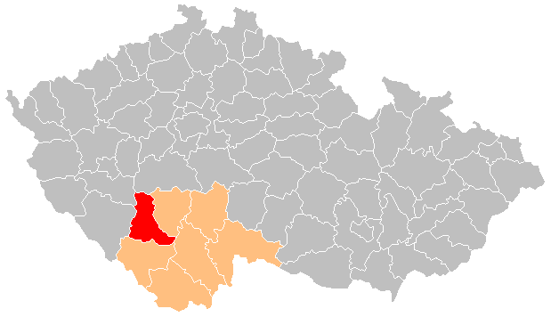 District of Strakonice